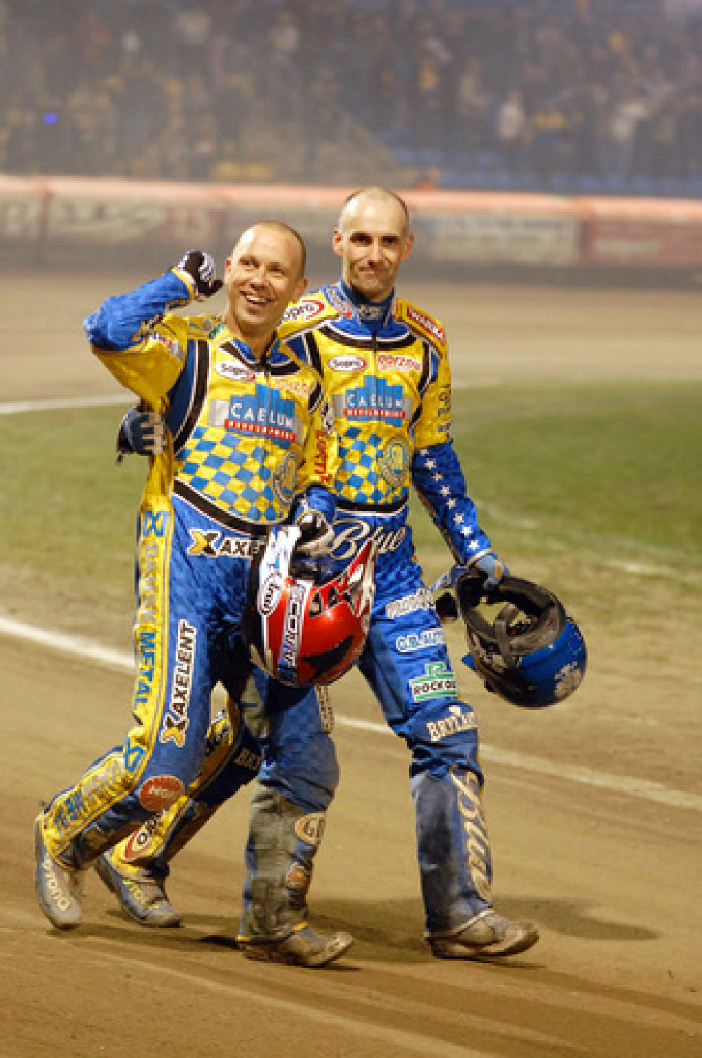 N. Pedersen i T. Gollob after heat 15 match Stal-Unia L. 2010